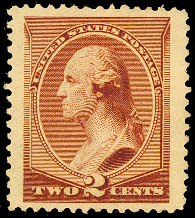 U.S. Postage stamp, 2c, brown, Issue of 1887